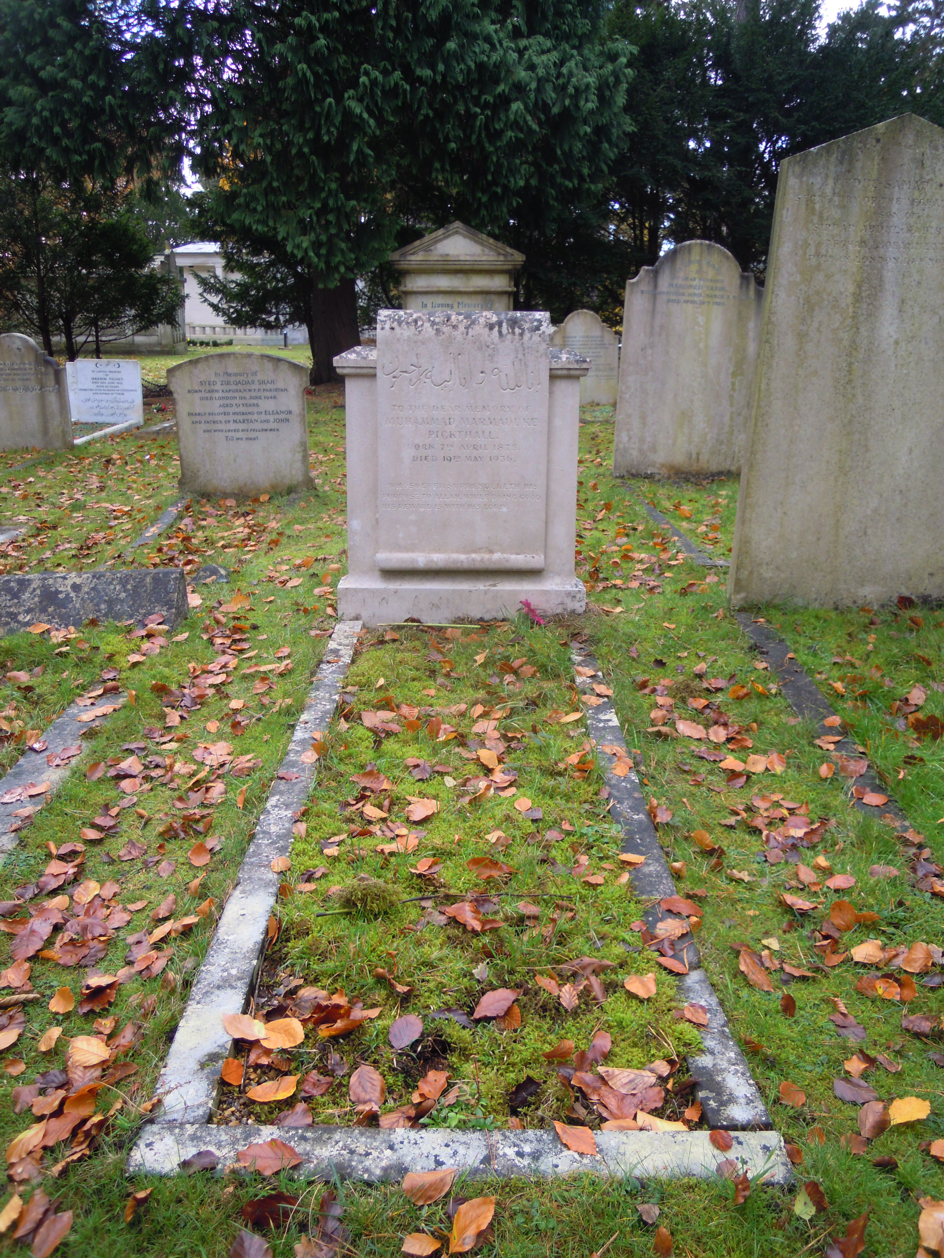 Grave of Marmaduke Pickthall in Brookwood Cemetery